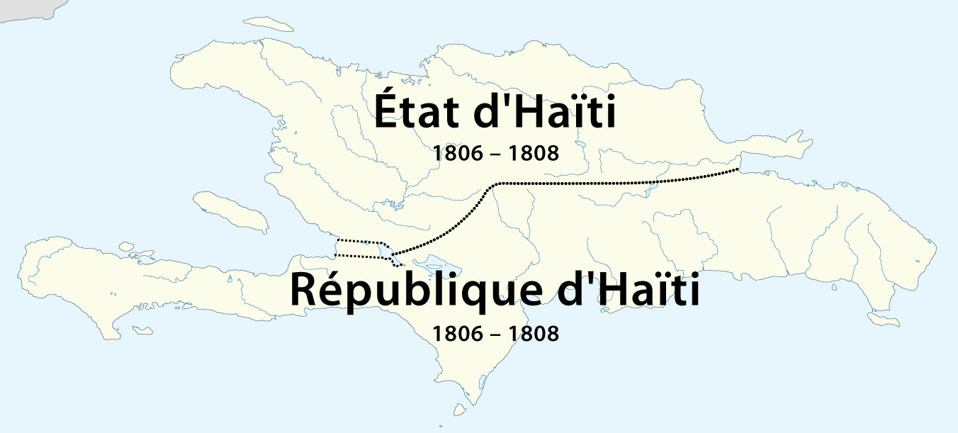 History of the teritorial changes of Hispaniola